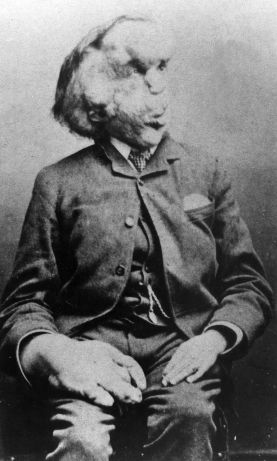 Joseph Merrick (1862-1890). The photograph was circulated to members of the public c. 1889 as a Carte de visite. This photograph was first published in The Elephant Man: A Study in Human Dignity by Ashley Montagu (first published in London and the United States in 1971; OCLC: 732266137)